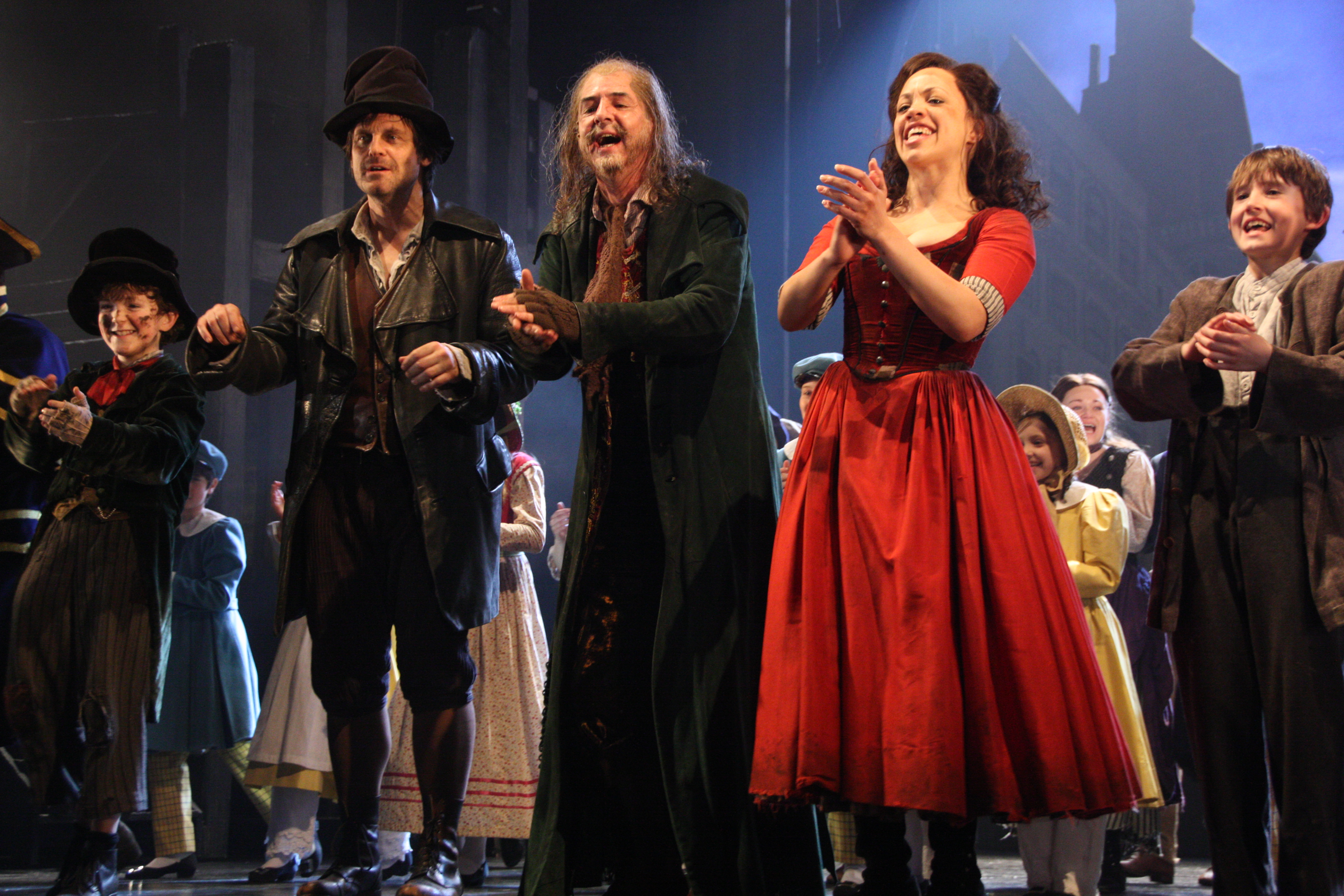 Final performance of the UK tour of Oliver! at the Bristol Hippodrome, 24 February 2013. Brenock O'Connor, Iain Fletcher, Neil Morrisey, Cat Simmons, Jacob Edwards.